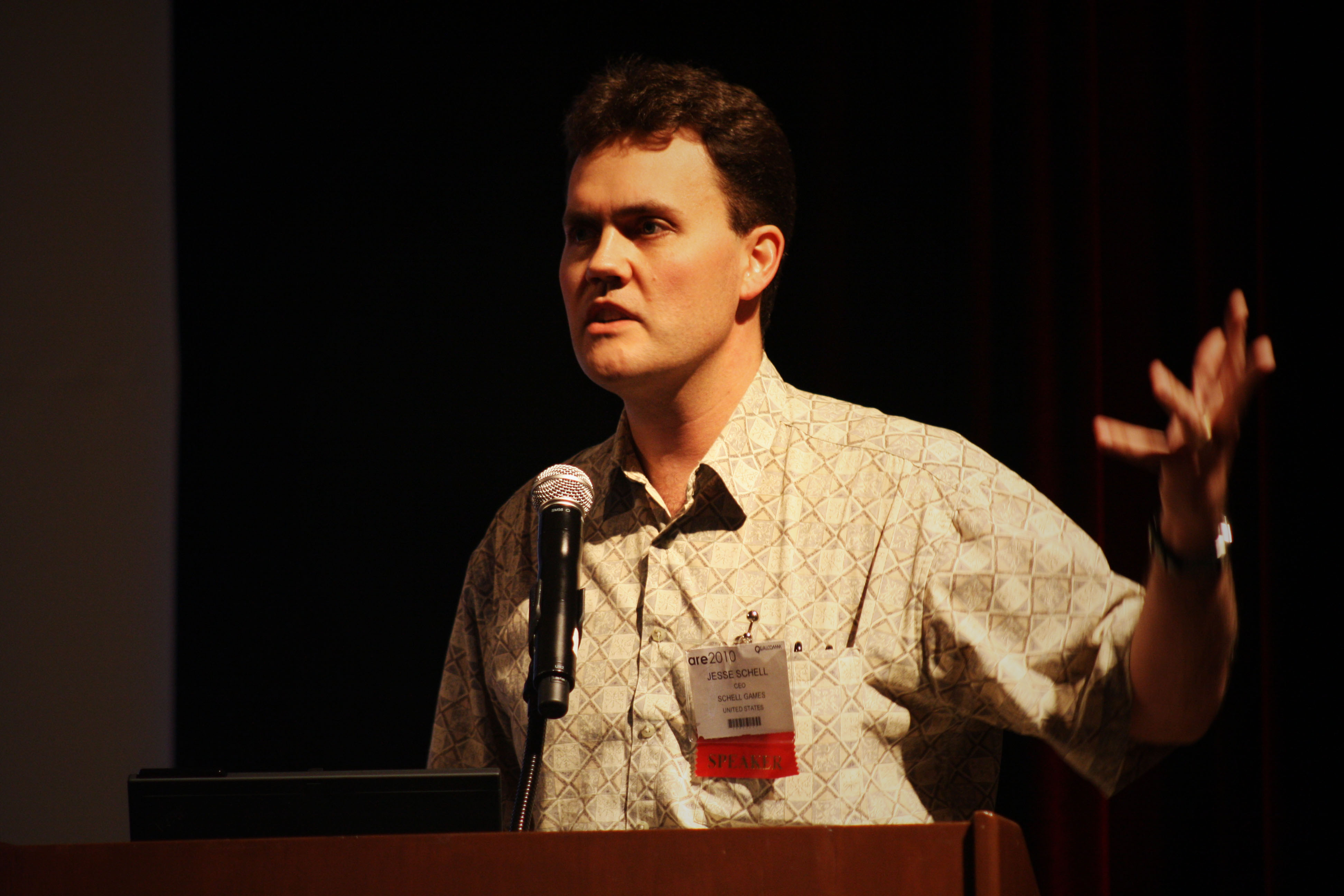 From ARE 2010 in Santa Clara, CA